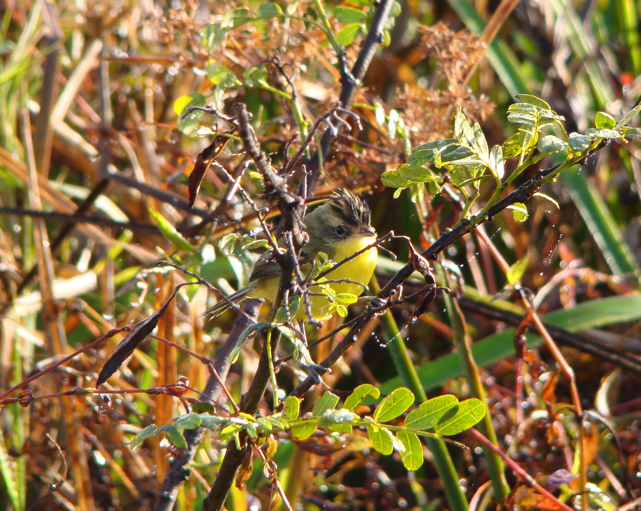 Pseudocolopteryx sclateri photographed in Rio Grande, Rio Grande do Sul, Brazil, in August 2009.